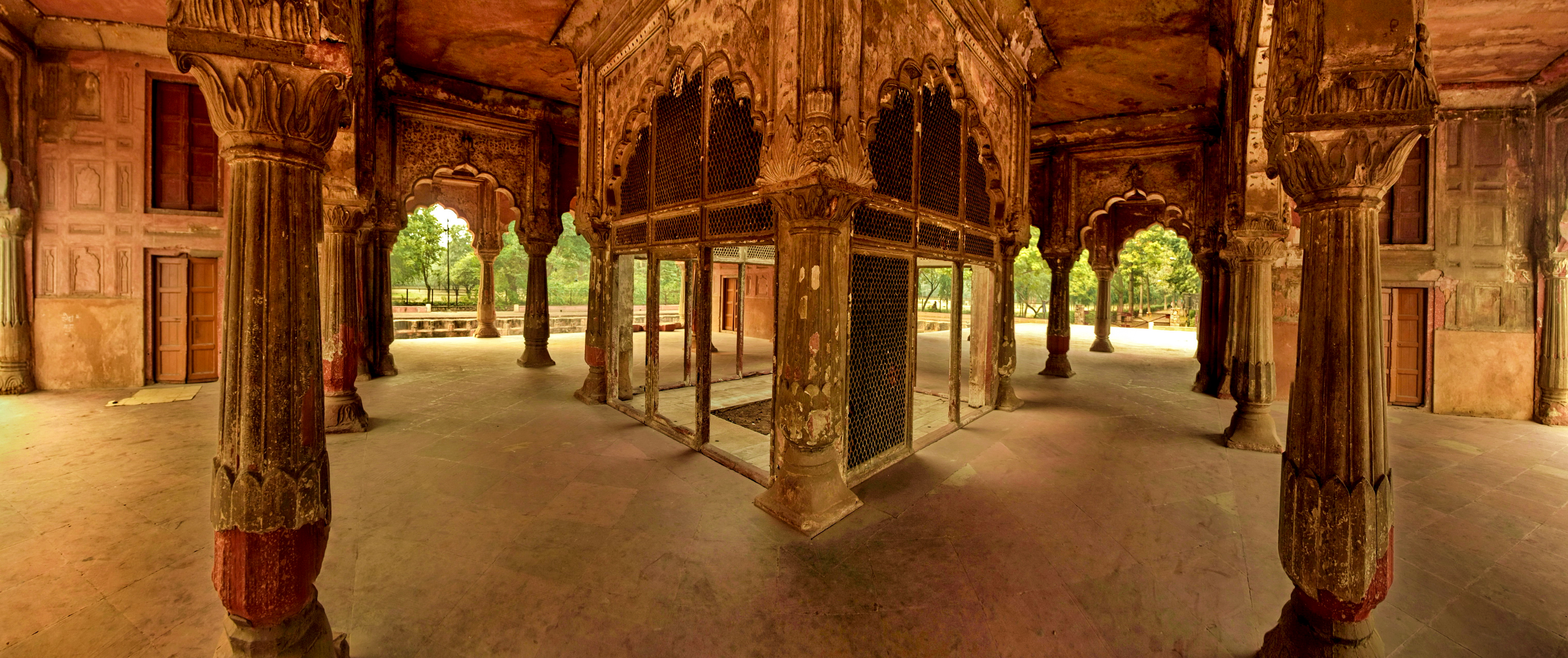 A panorama of the pavillion-tomb of Roshanara Begum. She is buried at the heart of the image, behind the marble screens. It consists of a patch of earth under an open skylight, in accordance with her last wishes of being buried under open earth and sky. The pavillion itself sits in the centre of a square pool and is one of the last large Mughal garden tombs.